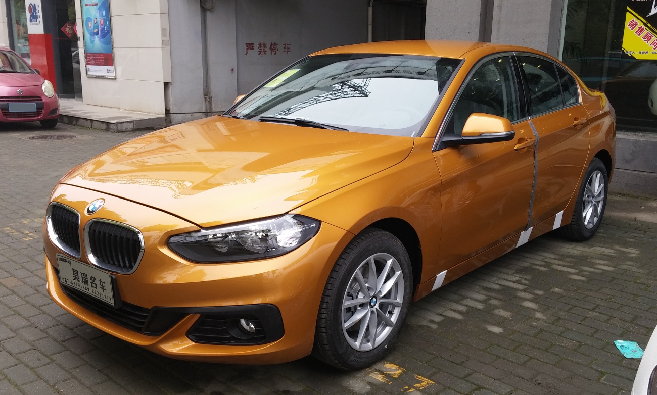 BMW 1-Series F52 photographed in Wuhan, Hubei province, China.